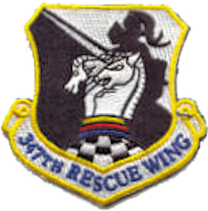 Emblem of the 347th Rescue Wing